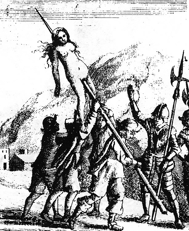 This image is among a group of prints illustrating the massacre of the Waldenses which took place in 1655. The young woman being tortured is said to be Anna, daughter of Giovanni Charboniere of La Torre.